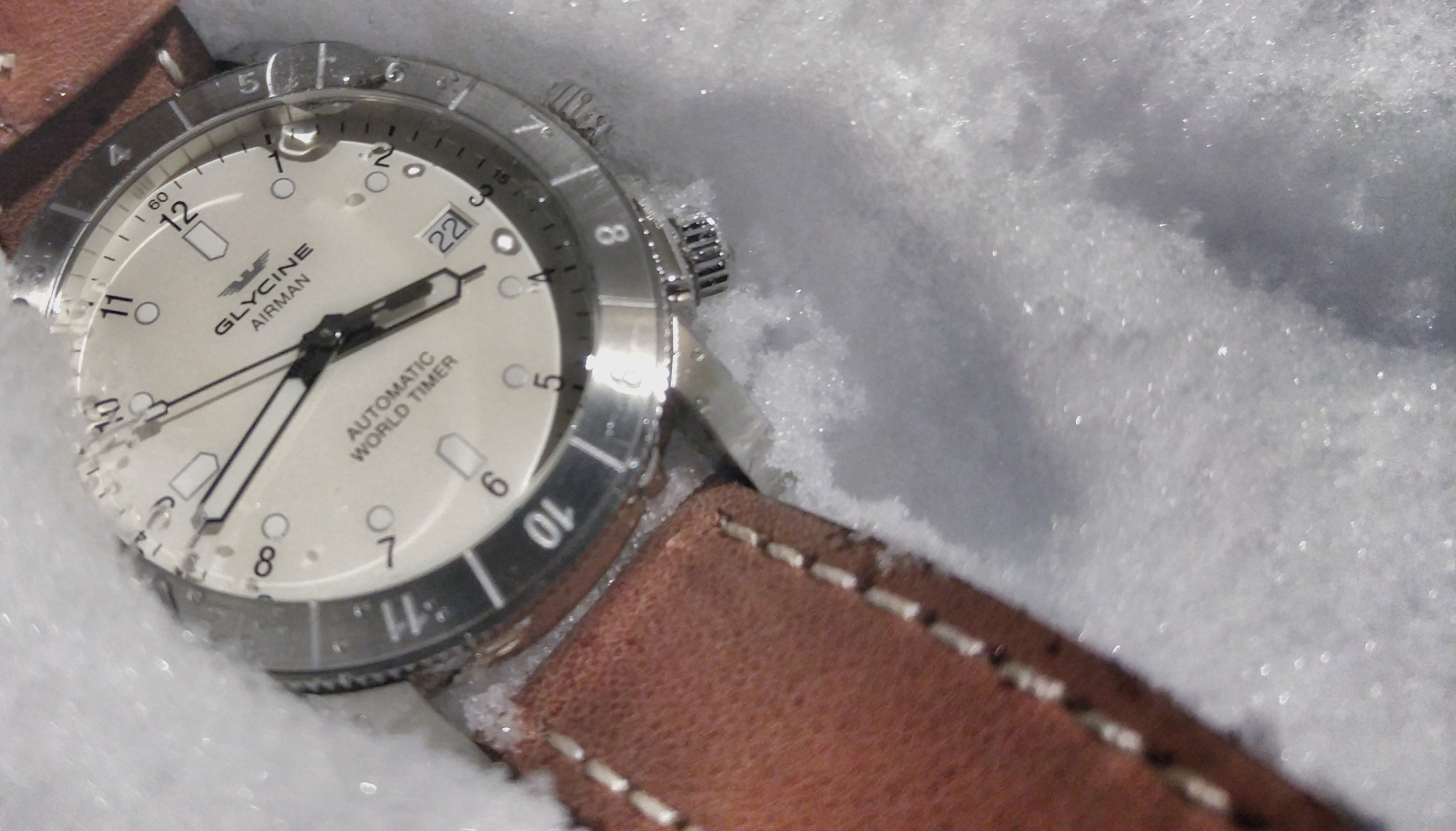 Glycine Airman 42 "Double Twelve" GL0061 watch.